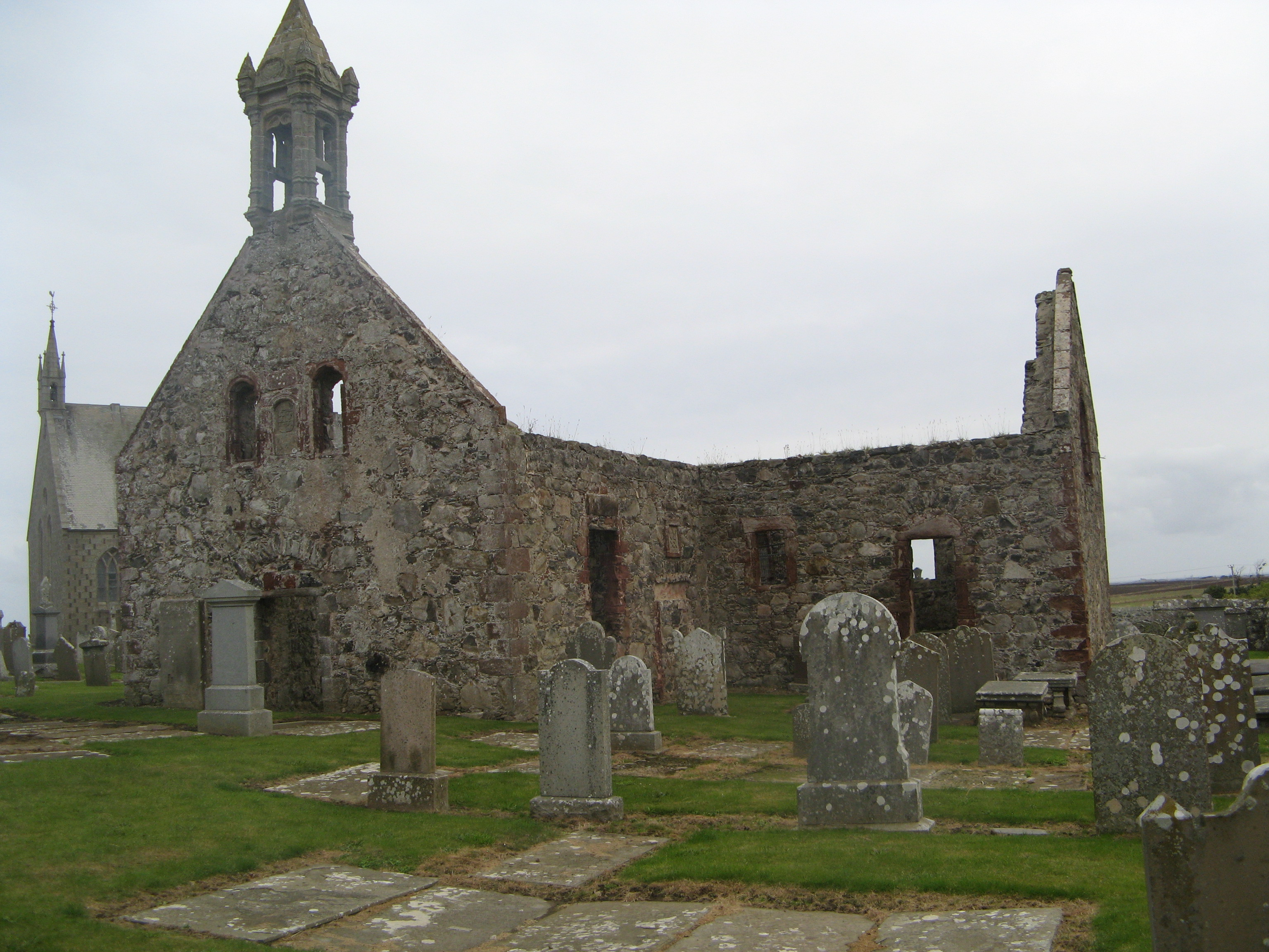 Old Church of Scotland, Peathill, Rosehearty, Category A listed building